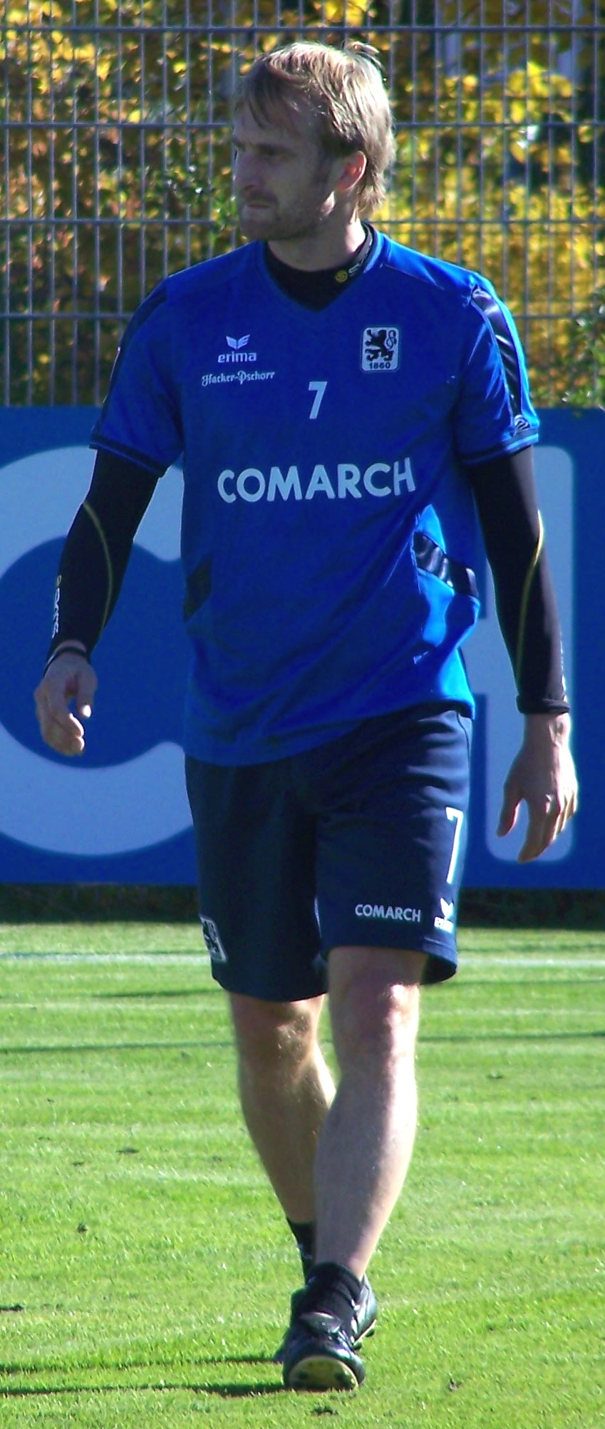 Daniel Bierofka, 1860 munich, training